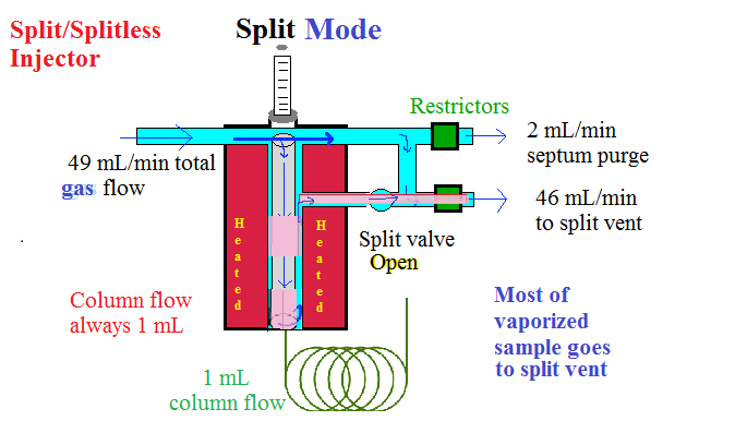 split